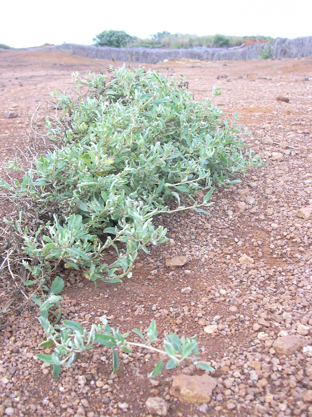 Atriplex suberecta (habit). Location: Kahoolawe, Moaulanui